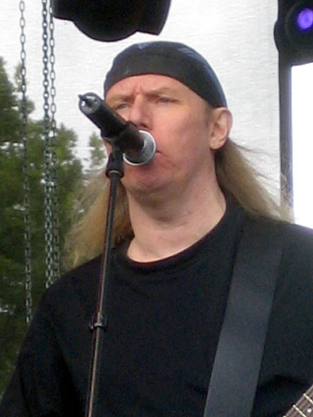 Dan „Fodde“ Fondelius, singer and guitarrist of Count Raven live @ Wacken 2005.